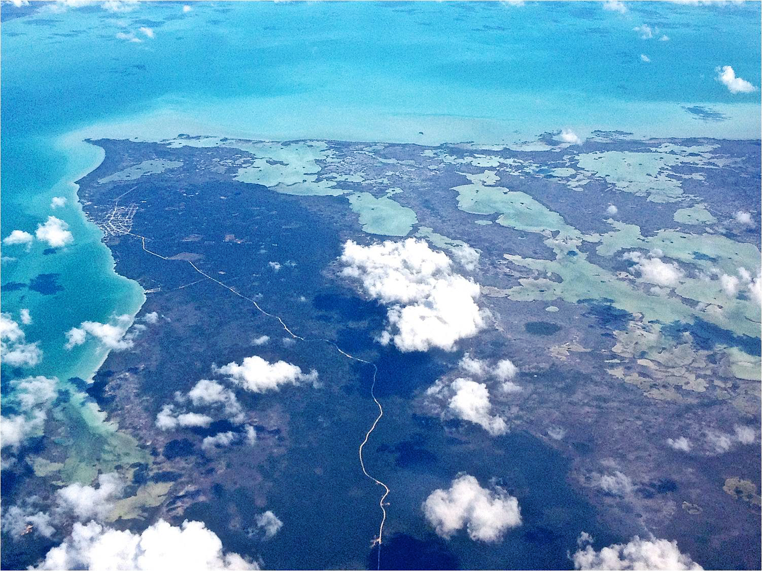 Shipstern peninsula from above